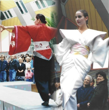 Fashionshow of DORIENDAVID designed kimonos for the Japan Festival in 1988